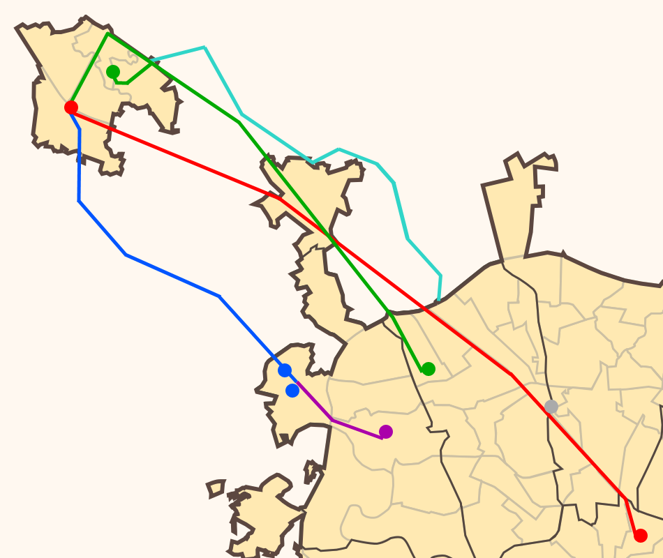 The four base transport lines between Zelenograd and Moscow